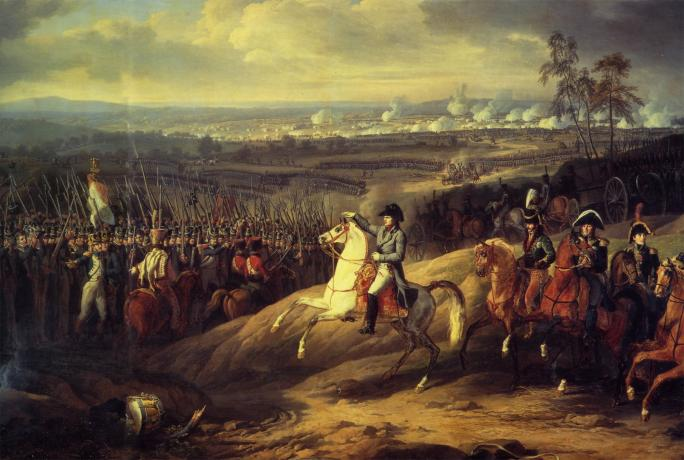 Napoleon at the battle of Jena